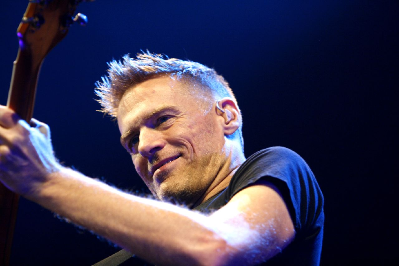 Bryan Adams live in the Color Line Arena, Hamburg, Germany, on June 3, 2007